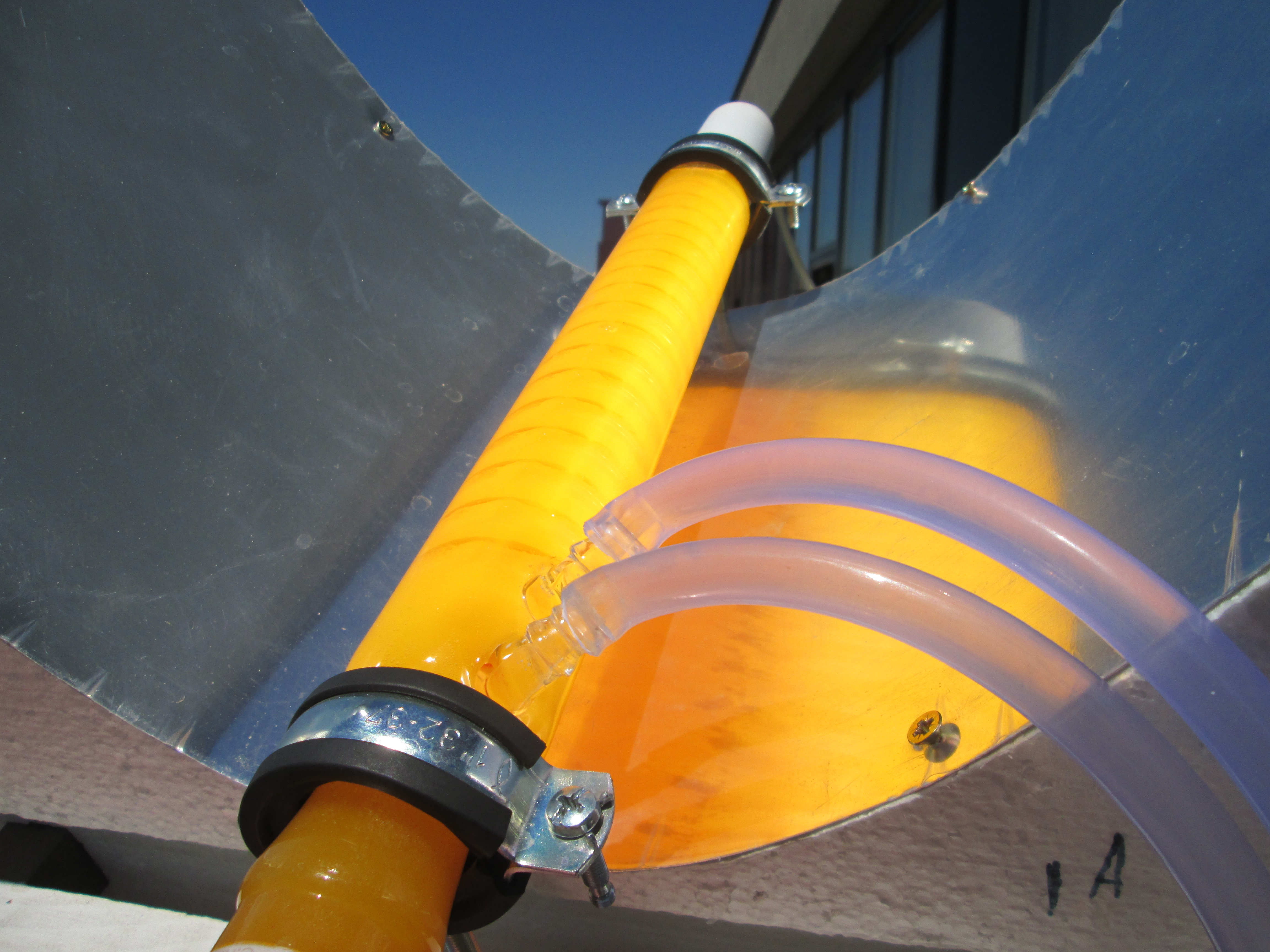 A photoreactor - parabolic linear concentrator assembly from LERF Timisoara (Romania)